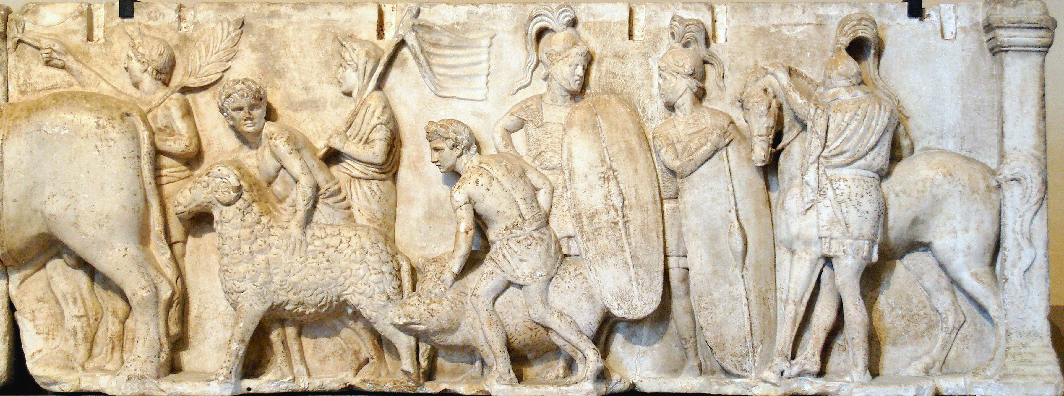 Sacrifice scene during a census: Right part of a plaque from the Altar of Domitius Ahenobarbus known as the “Census frieze”. Marble, Roman artwork of the late 2nd century BC. From the Campo Marzio, Rome.